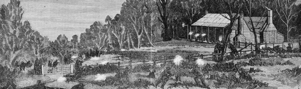 The Kelly gang exchanges gunfire with police during the Glenrowan siege.